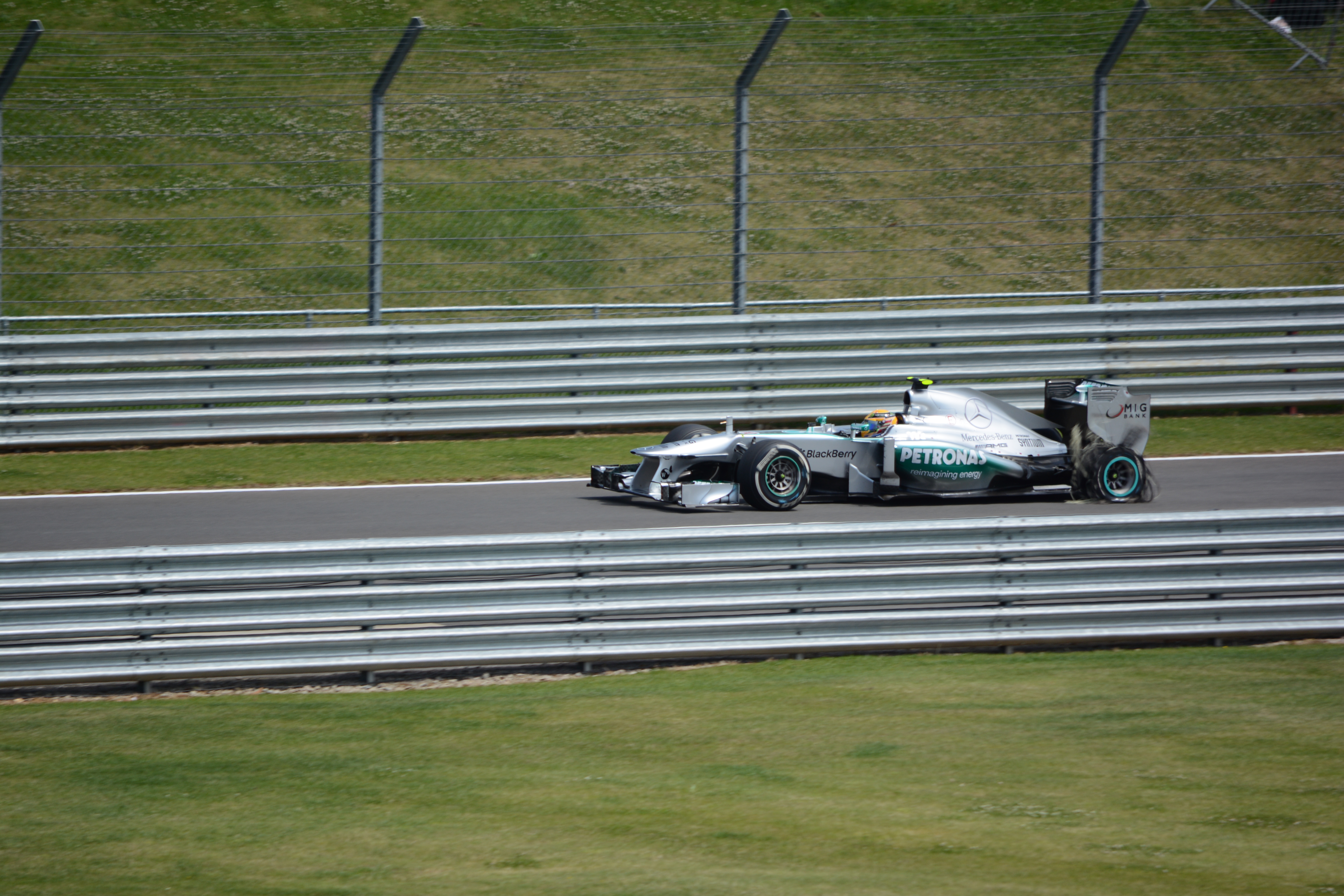 Lewis Hamilton (Mercedes) at the 2013 British Grand Prix.